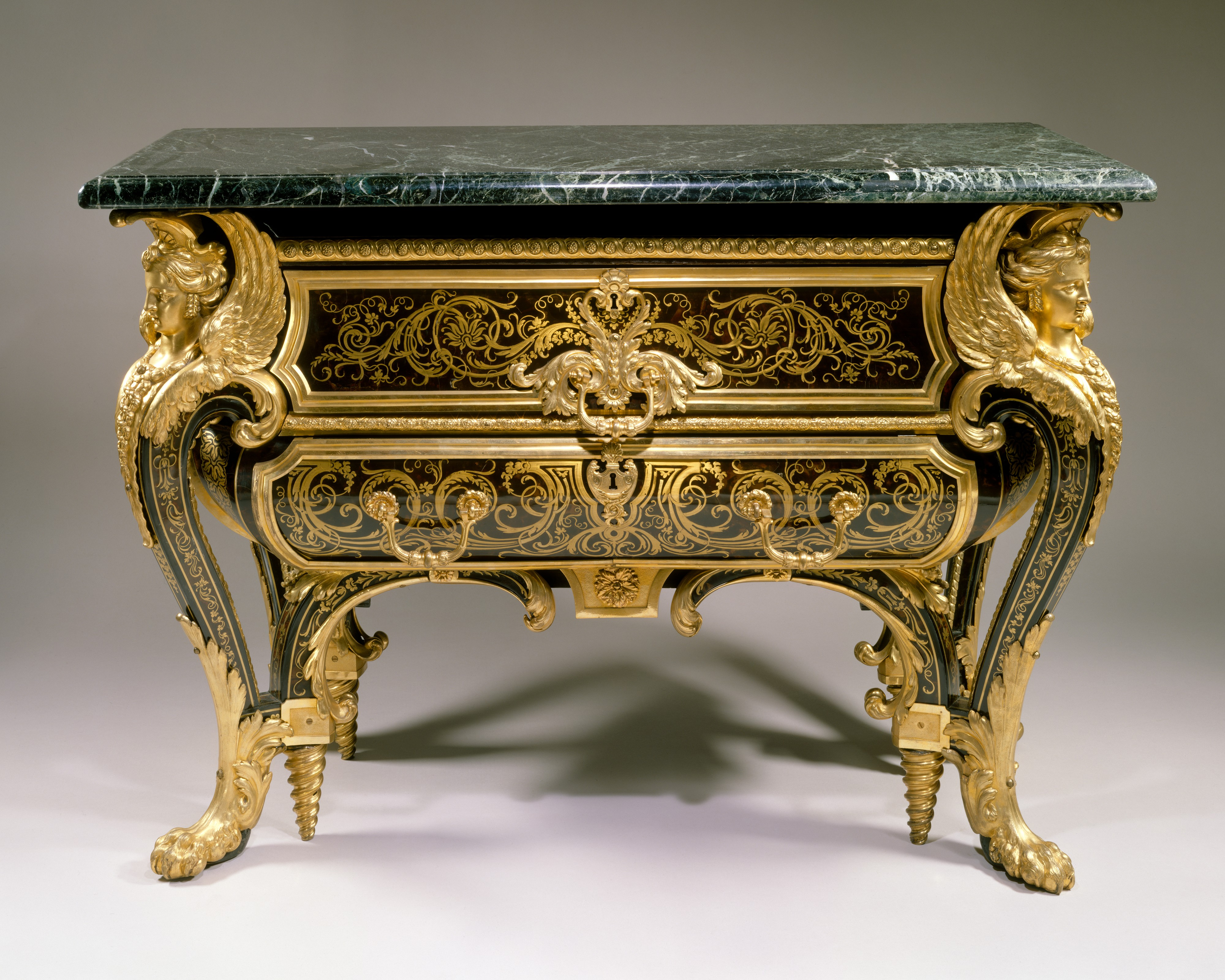 French; Commode; Woodwork-Furniture